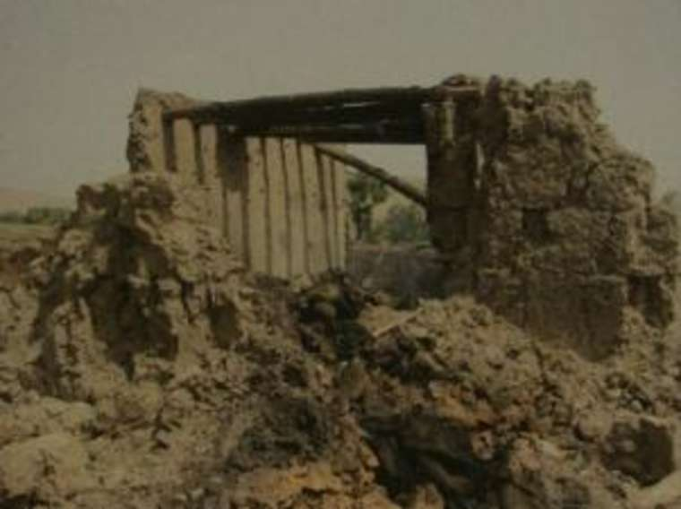 Remains of compound in Ab Kheyl following July 2002 firefight